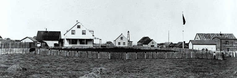 Photograph, Manager's house and other buildings, Waskaganish (Rupert House), QC, 1921(?), Captain George E. Mack, Silver salts on paper mounted on paper - Gelatin silver process - 7 x 13 cm